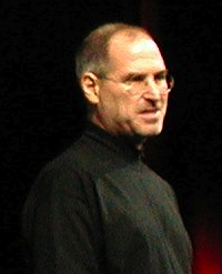 Cropped version of Stevejobs_Macworld2005.jpg